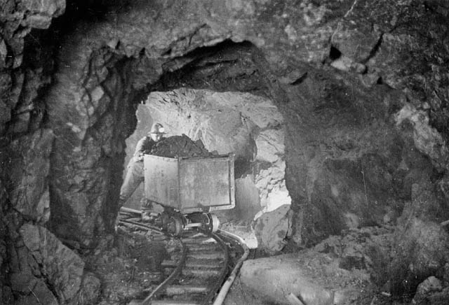 A miner hauling a car of silver and radium ore, 340 feet below the surface, at the Eldorado Mine of Great Bear Lake. c. 1930. Photo credit: Eldorado Mining & Refining Ltd., now in the collection of Library and Archives Canada, C-023983 [1]